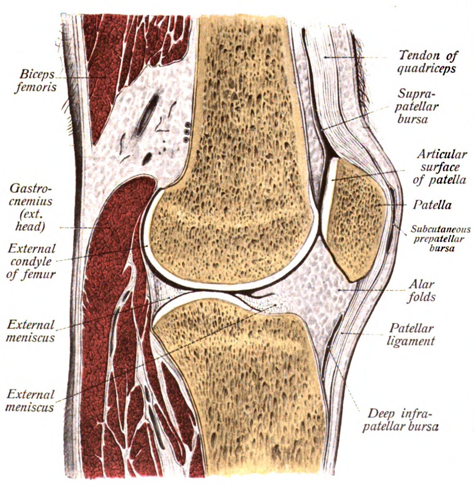 An anatomical illustration from the 1909 American edition of Sobotta's Atlas and Text-book of Human Anatomy with English terminology